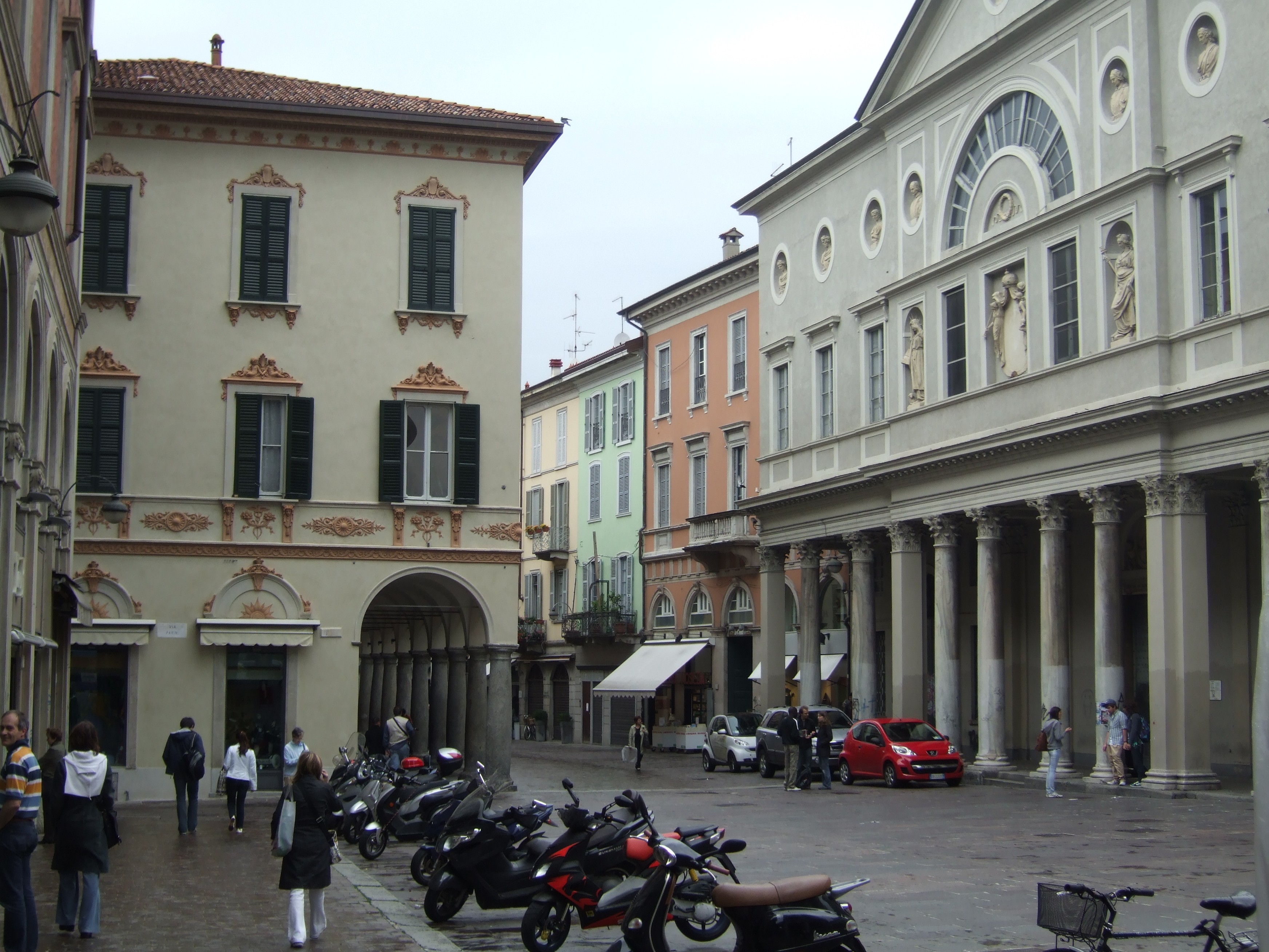 High School in Como "Alessandro Volta" by Simone Cantoni